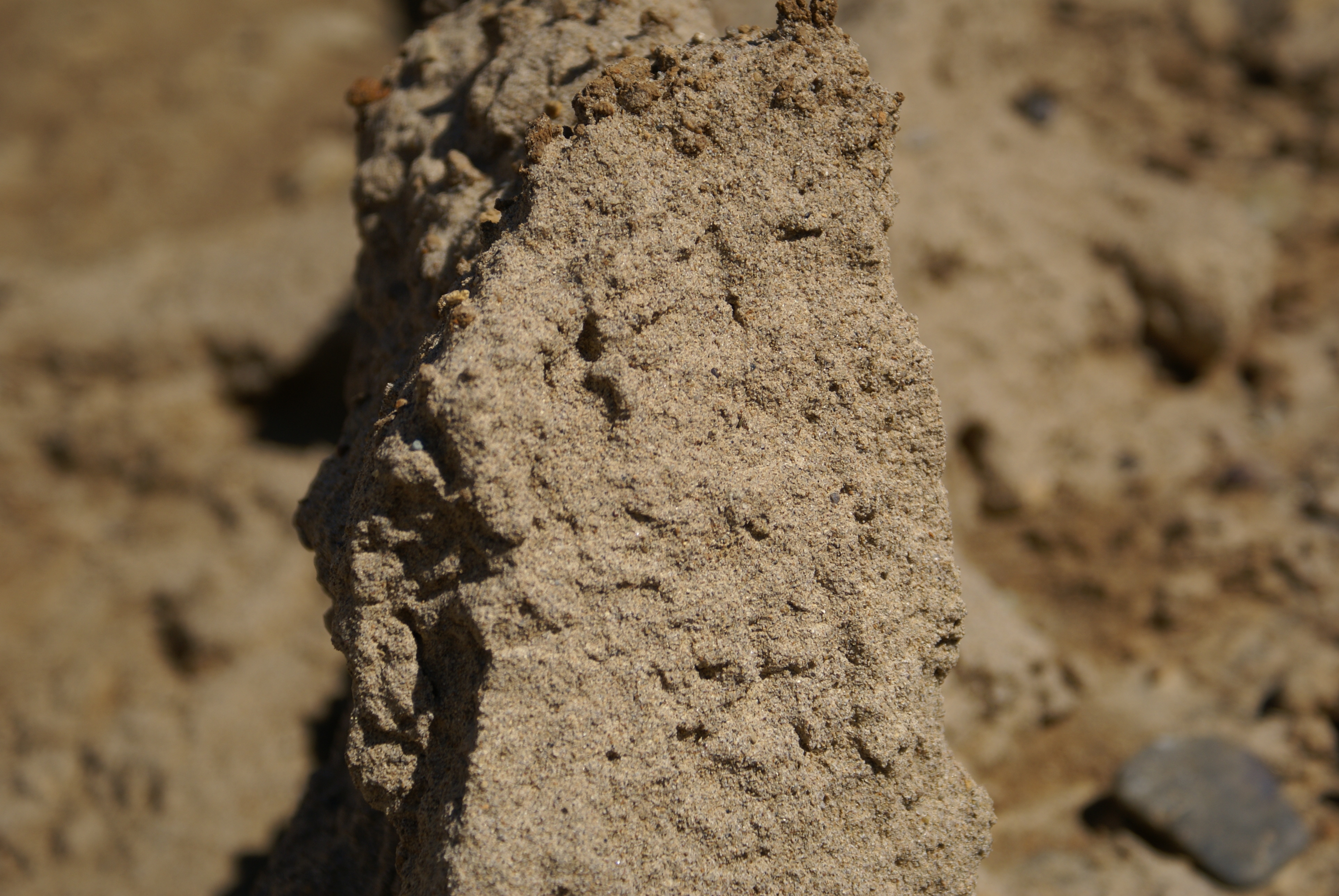 Inagisuna